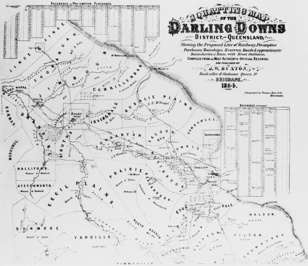 Squatting map of the Darling Downs district, 1864 Showing the proposed line of the railway, pre-emptive purchases, townships, reserves, roads and approximate boundaries of runs, with head stations. Compiled from the most authentic official records. Published by J. W. Buxton, Bookseller and Stationer, Queen Street, Brisbane.